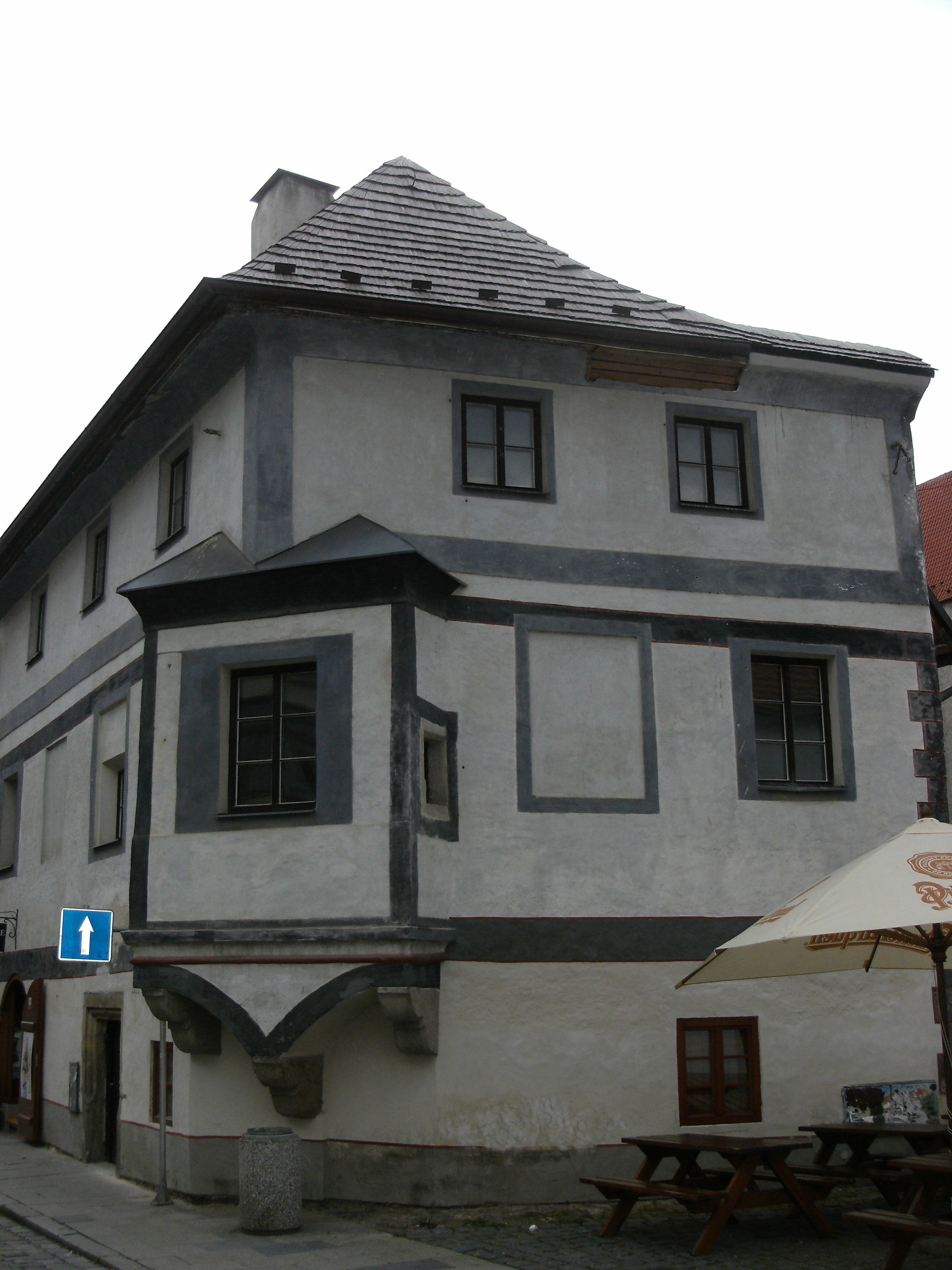 House in České Budějovice.